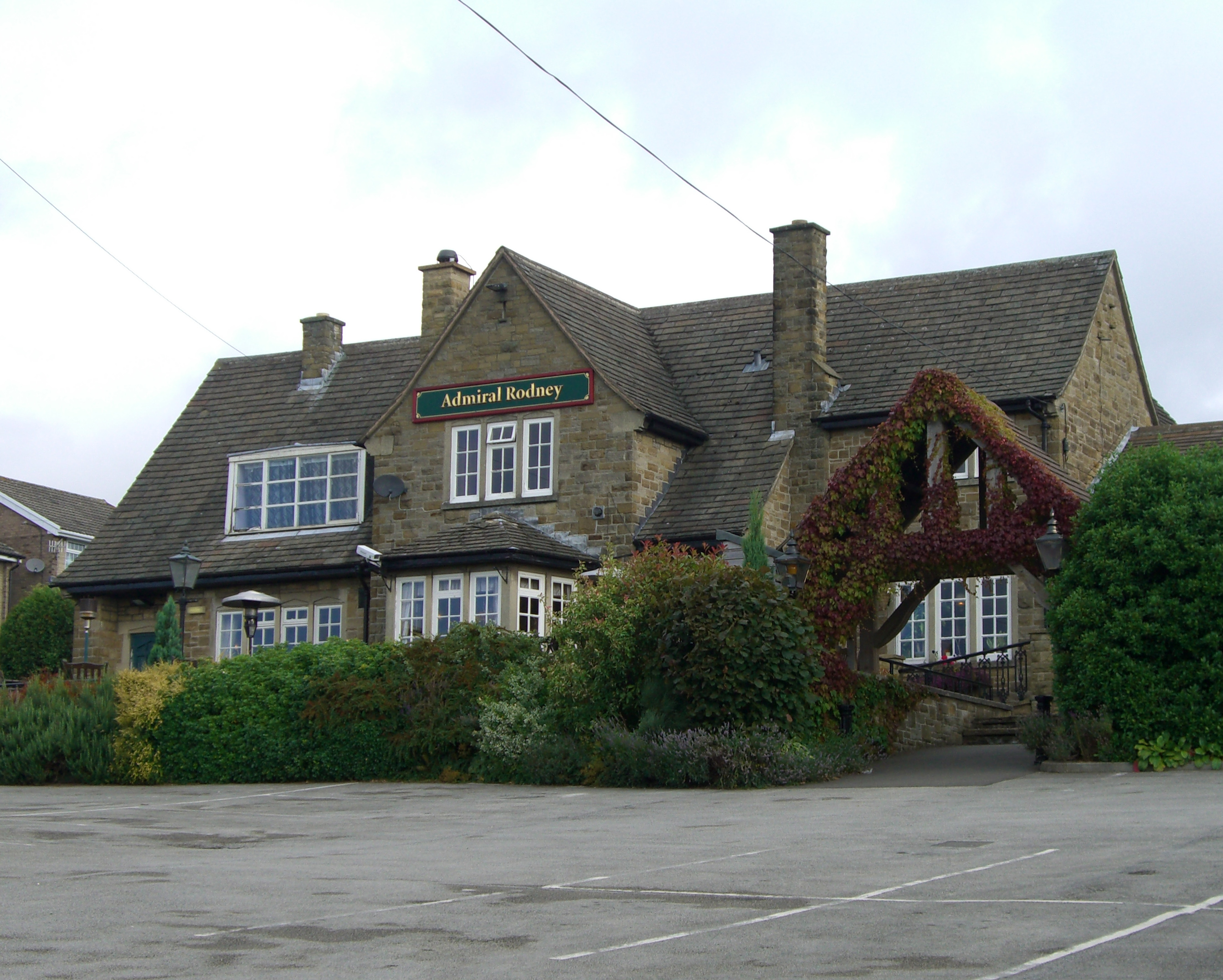 Admiral Rodney public house in the suburb of Loxley, Sheffield, England.